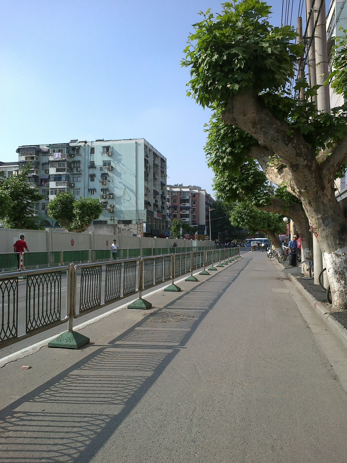 South Taiping Road scenery,Nanjing